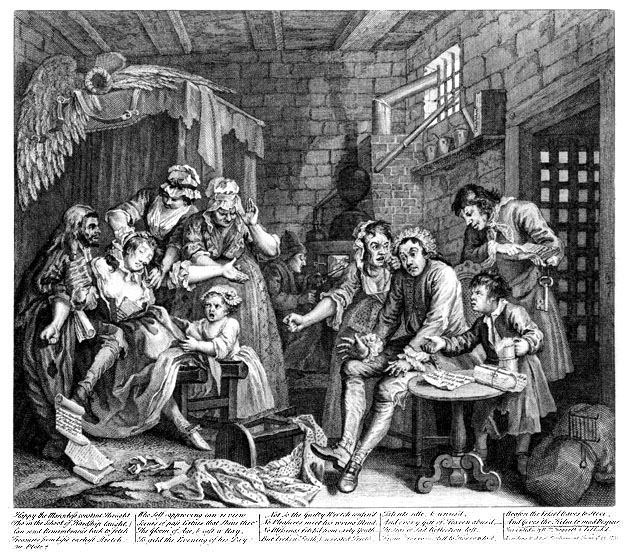 William Hogarth: A Rake's Progress, Plate 7: The Prison Scene, Engraving, 35.5 x 41cm